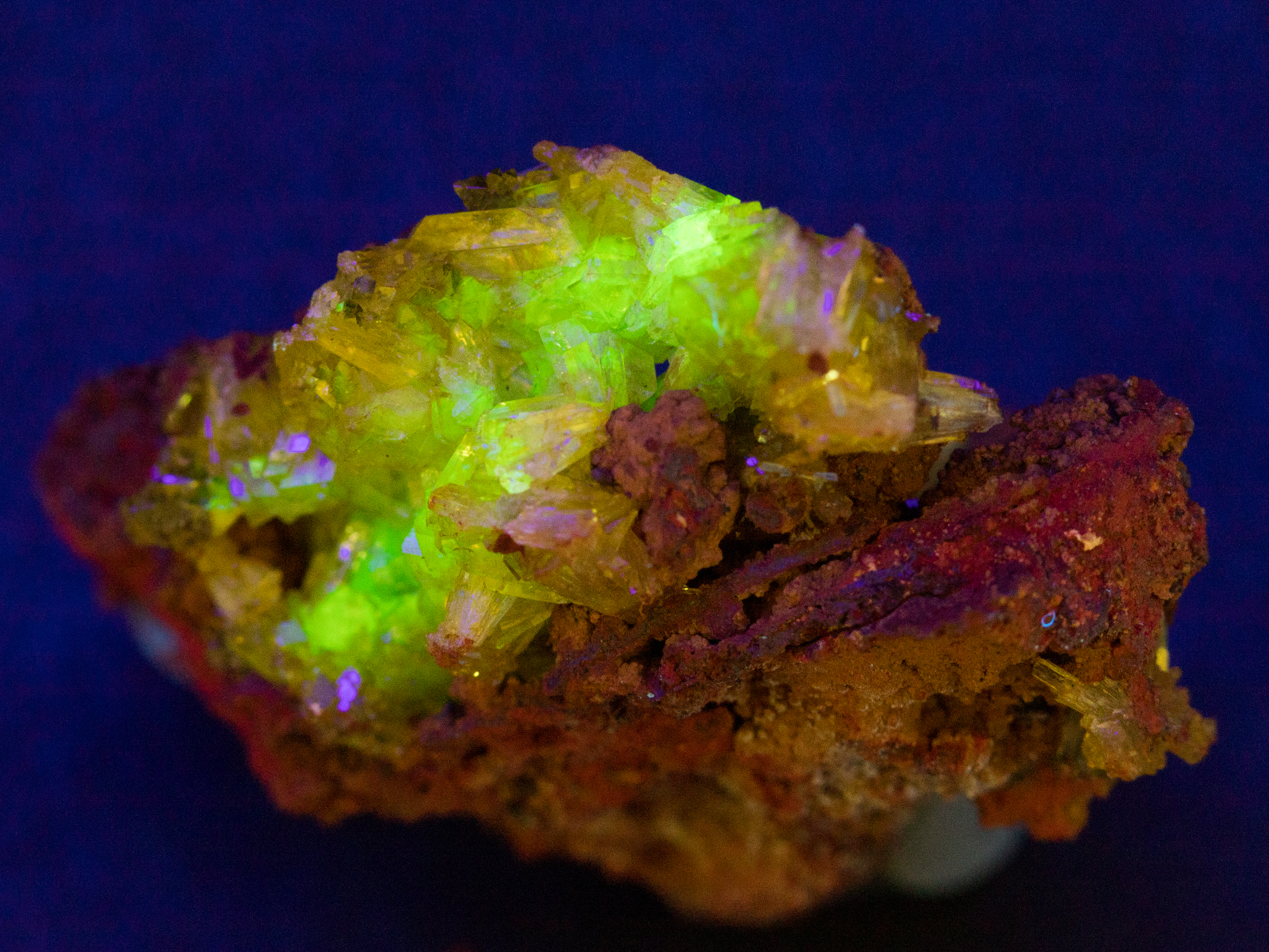 Adamite Dimensions: 3 cm × 2.4 cm × 1.5 cm Locality: Mexico Description: Greenish yellow, acicular radiating crystals of adamite on porose reddish matrix; lighting up bright green under ultraviolet light. From the collection of Ra'ike